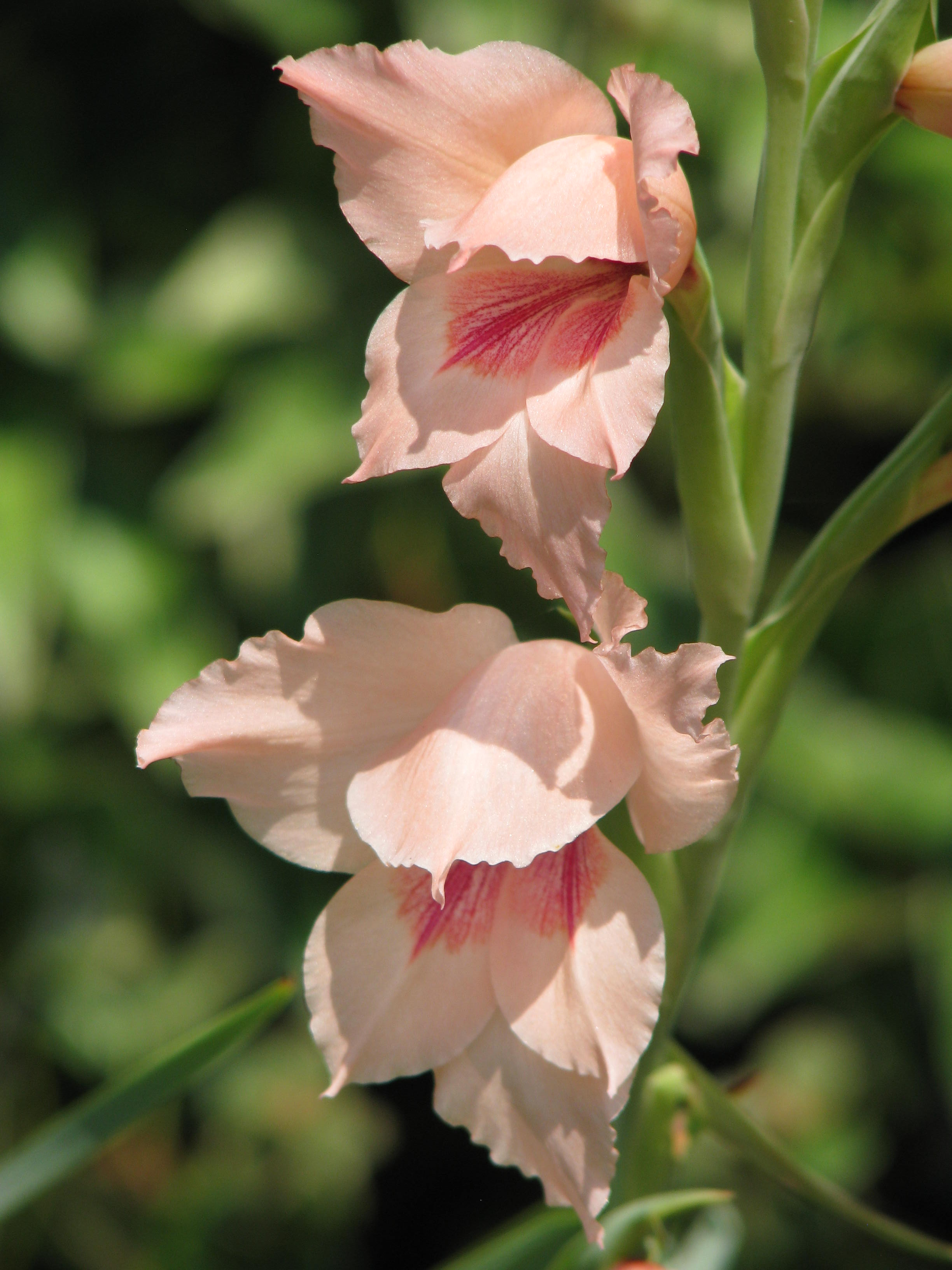 Quite nice though - with the very glaucous foliage and all